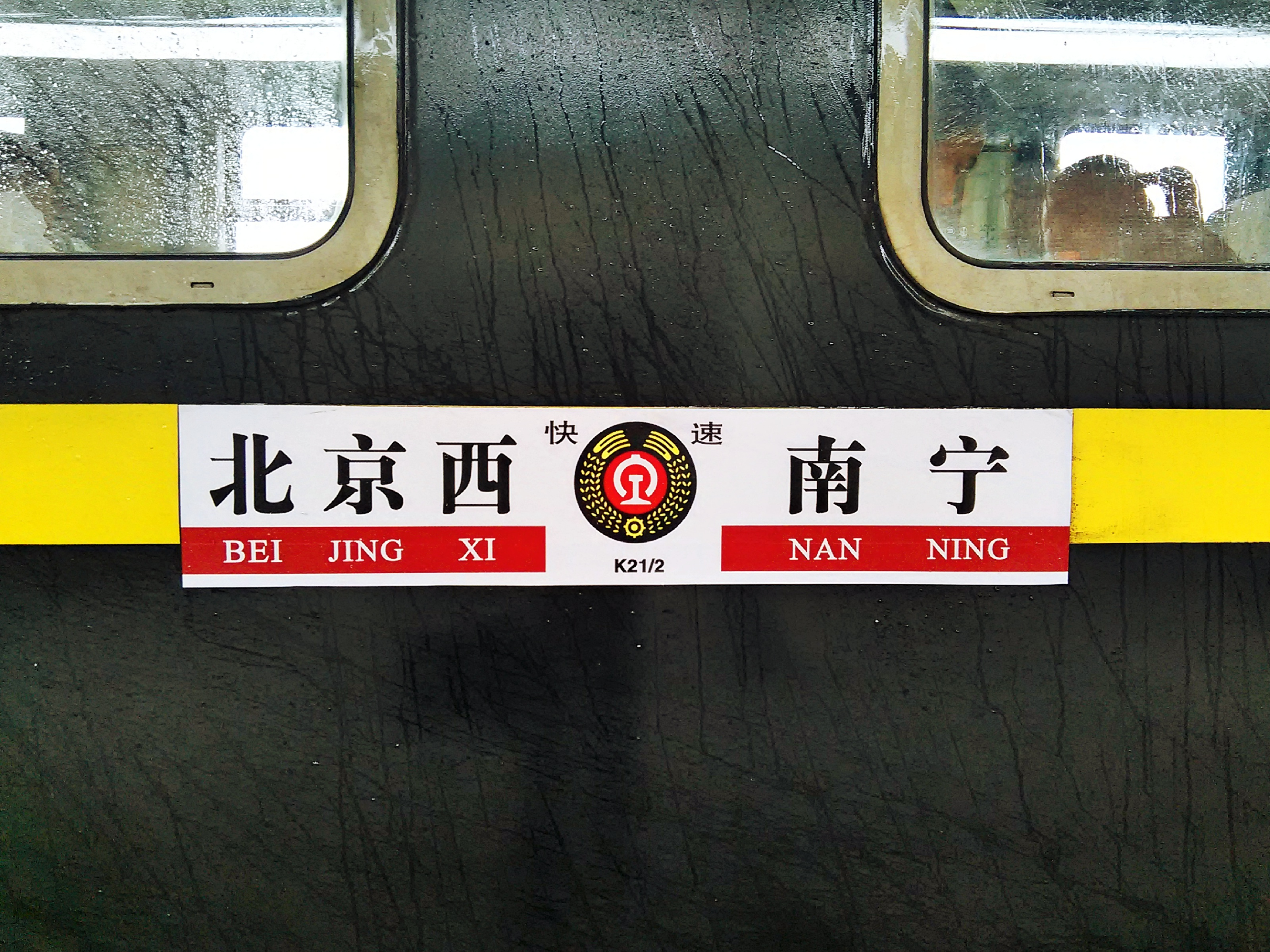 Board of K21/22 Express Train. The board was taken in Laibin Railway Station.